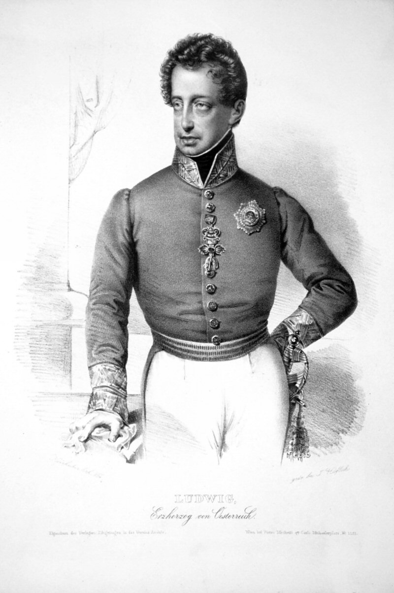 Archduke Ludwig Joseph Anton of Austria (1784-1864), son of Emperor Leopold II